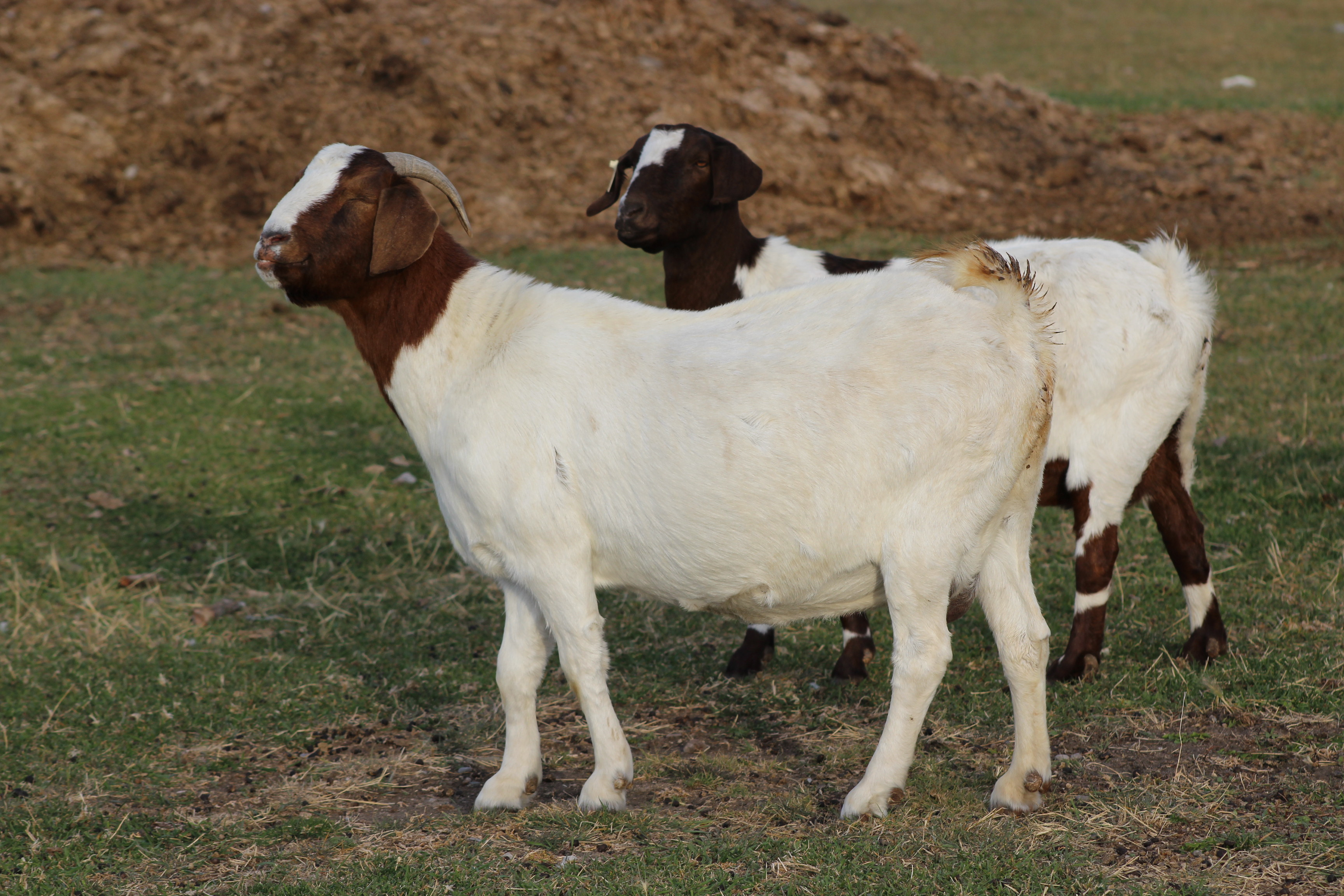 Boer goat Doe